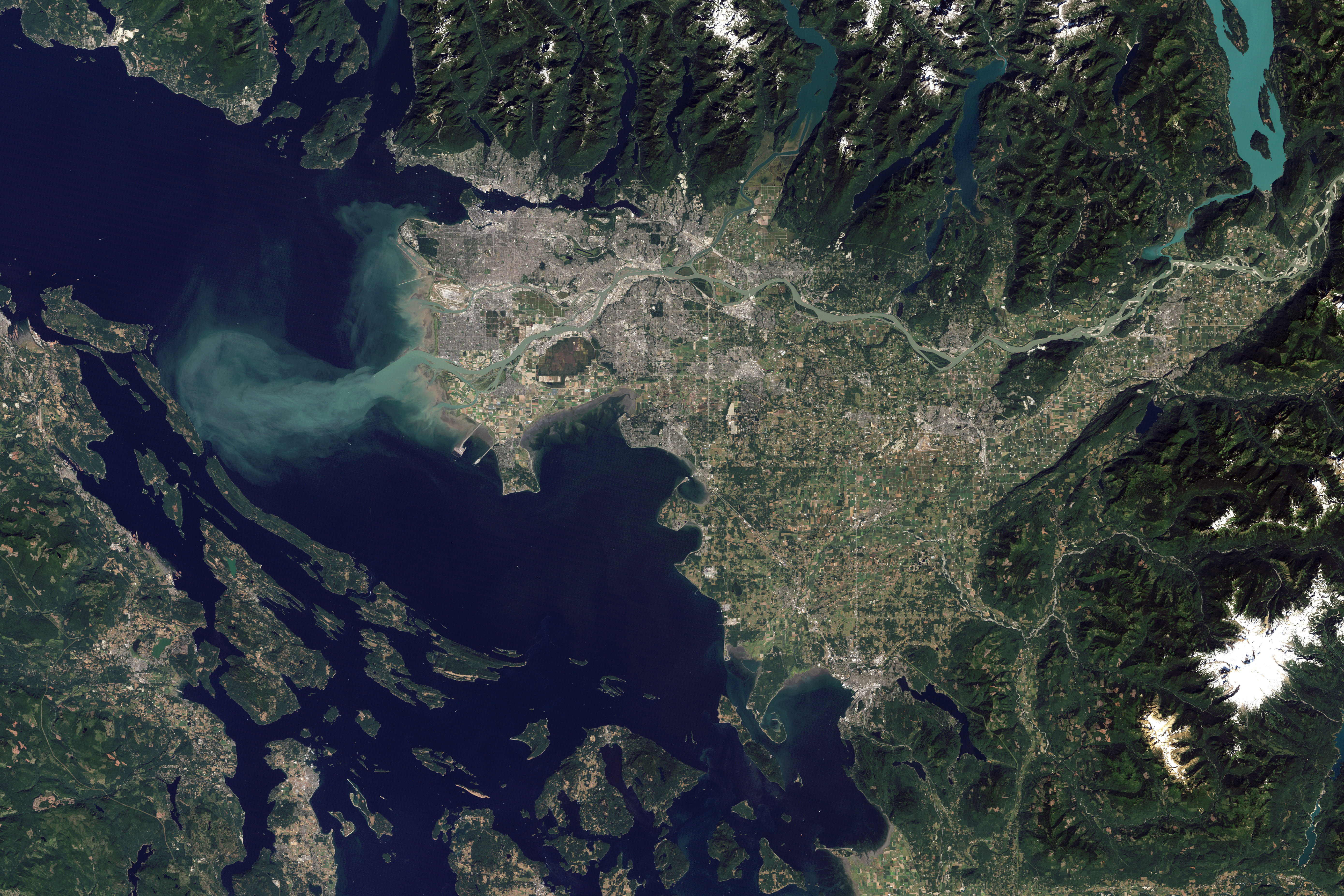 The Thematic Mapper on the Landsat 5 satellite captured this image of Vancouver on September 7, 2011. Flowing through braided channels, the Fraser River meanders toward the sea, emptying through multiple outlets. Moe info: NASA Earth Observatory image created by Robert Simmon and Jesse Allen, using Landsat data provided by the United States Geological Survey. Instrument: Landsat 5 - TM Credit: NASA Earth Observatory NASA image use policy. NASA Goddard Space Flight Center enables NASA’s mission through four scientific endeavors: Earth Science, Heliophysics, Solar System Exploration, and Astrophysics. Goddard plays a leading role in NASA’s accomplishments by contributing compelling scientific knowledge to advance the Agency’s mission. Follow us on Twitter Like us on Facebook Find us on Instagram